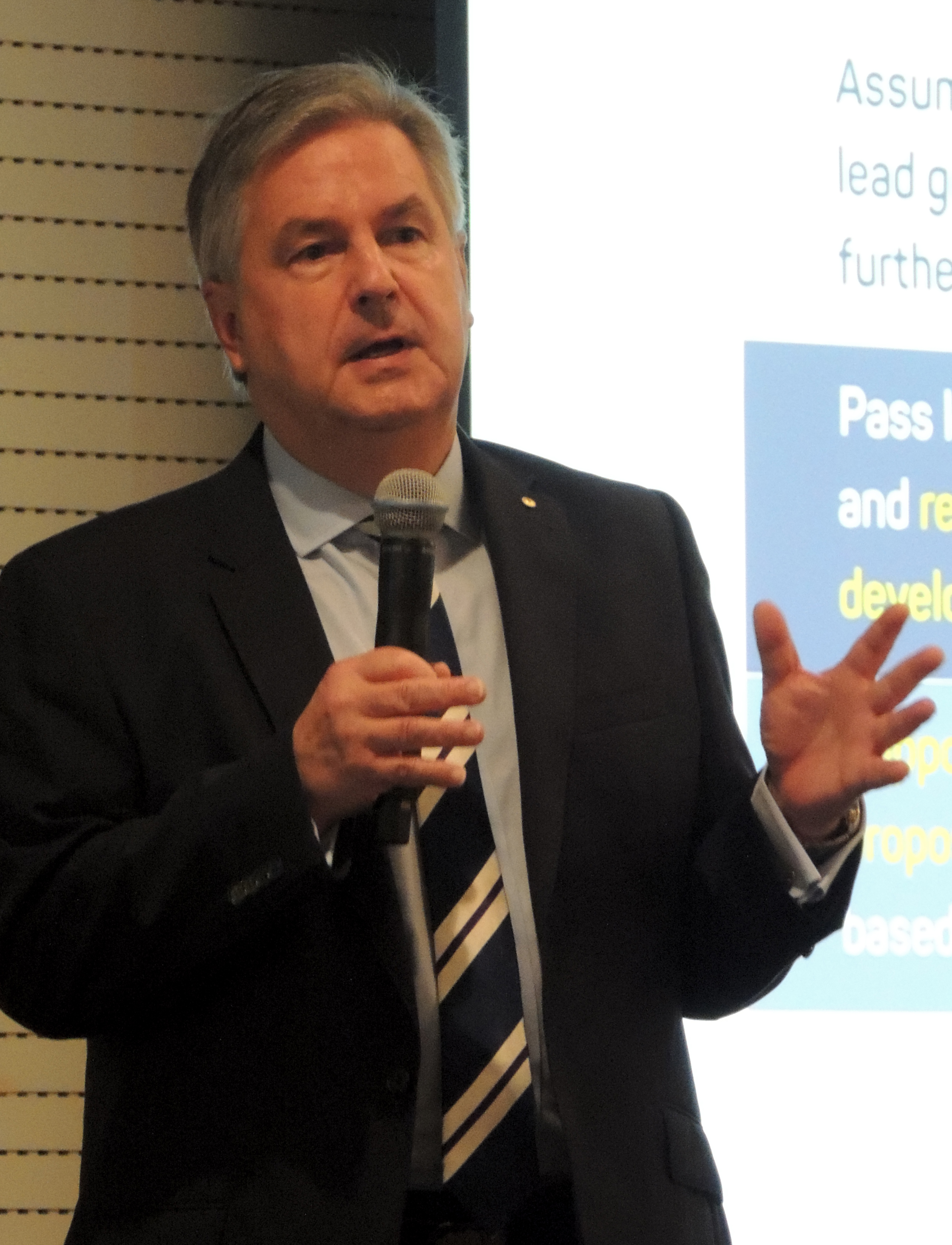 Kevin Scarce presents at RESA event in Adelaide, 31 May 2016